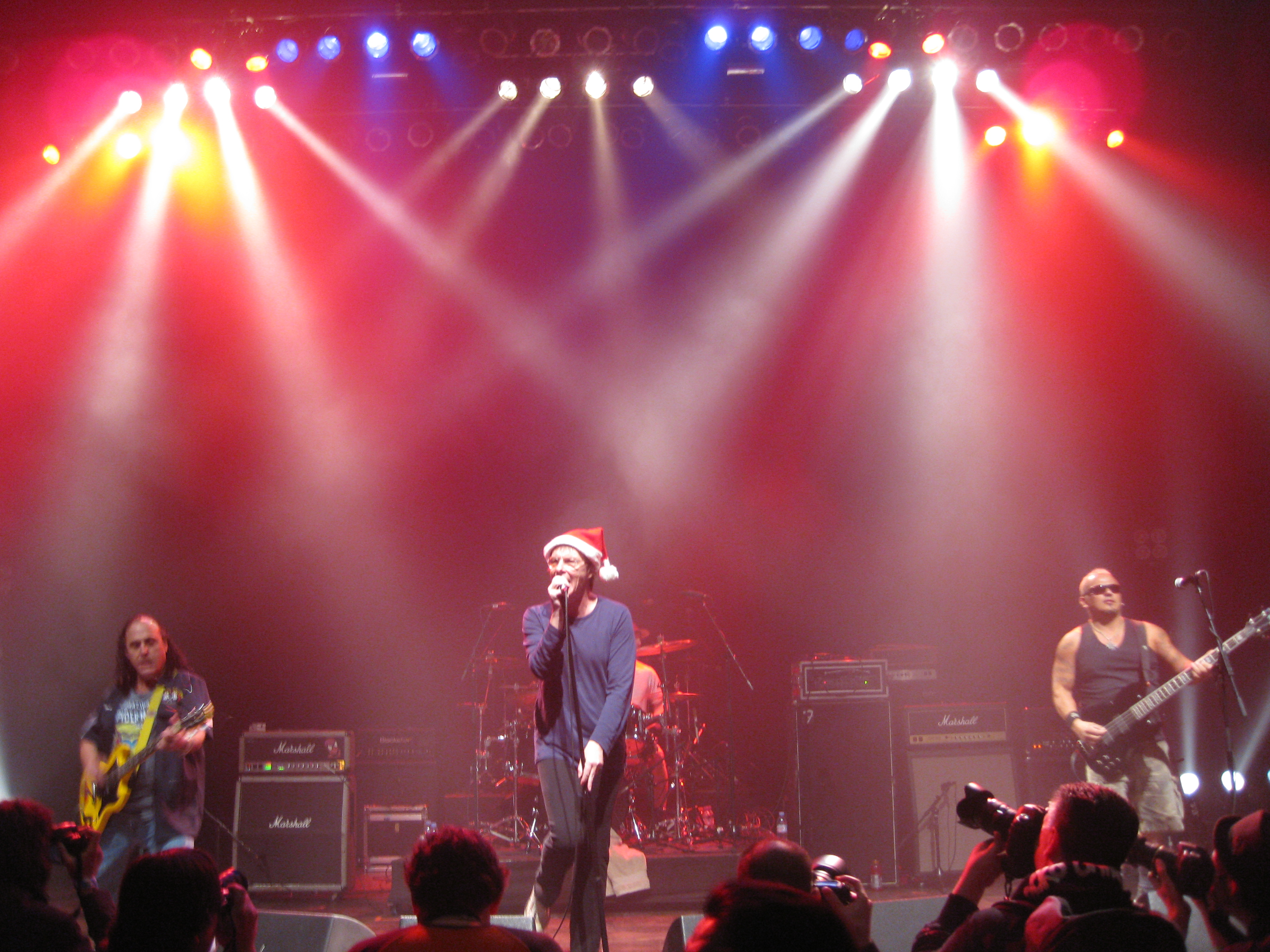 The Dickies performing December 18, 2011 at the Santa Monica Civic Auditorium in Santa Monica, California as part of the GV30 event.